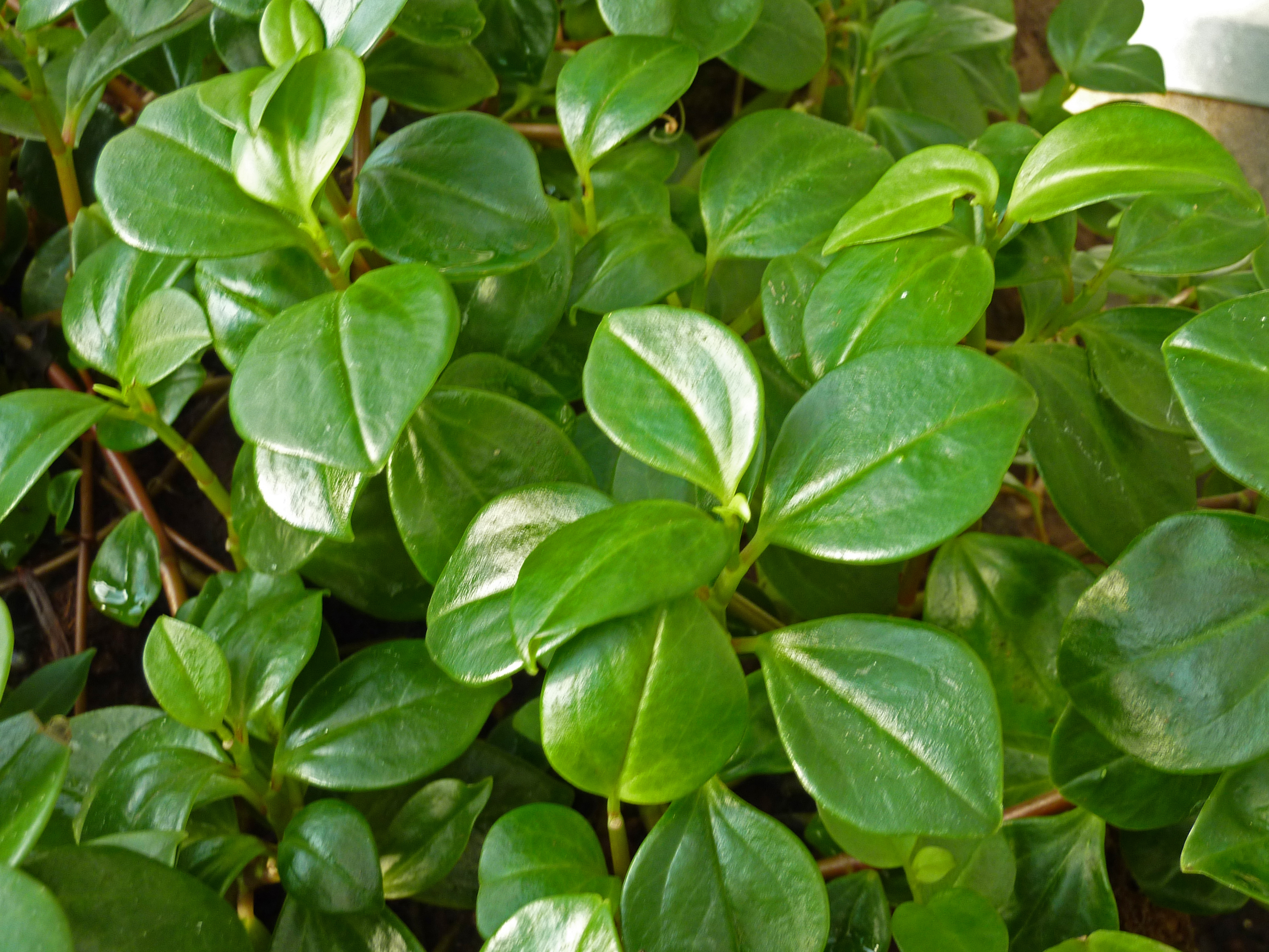 Peperomia tetraphylla in the Botanical Garden, Berlin.